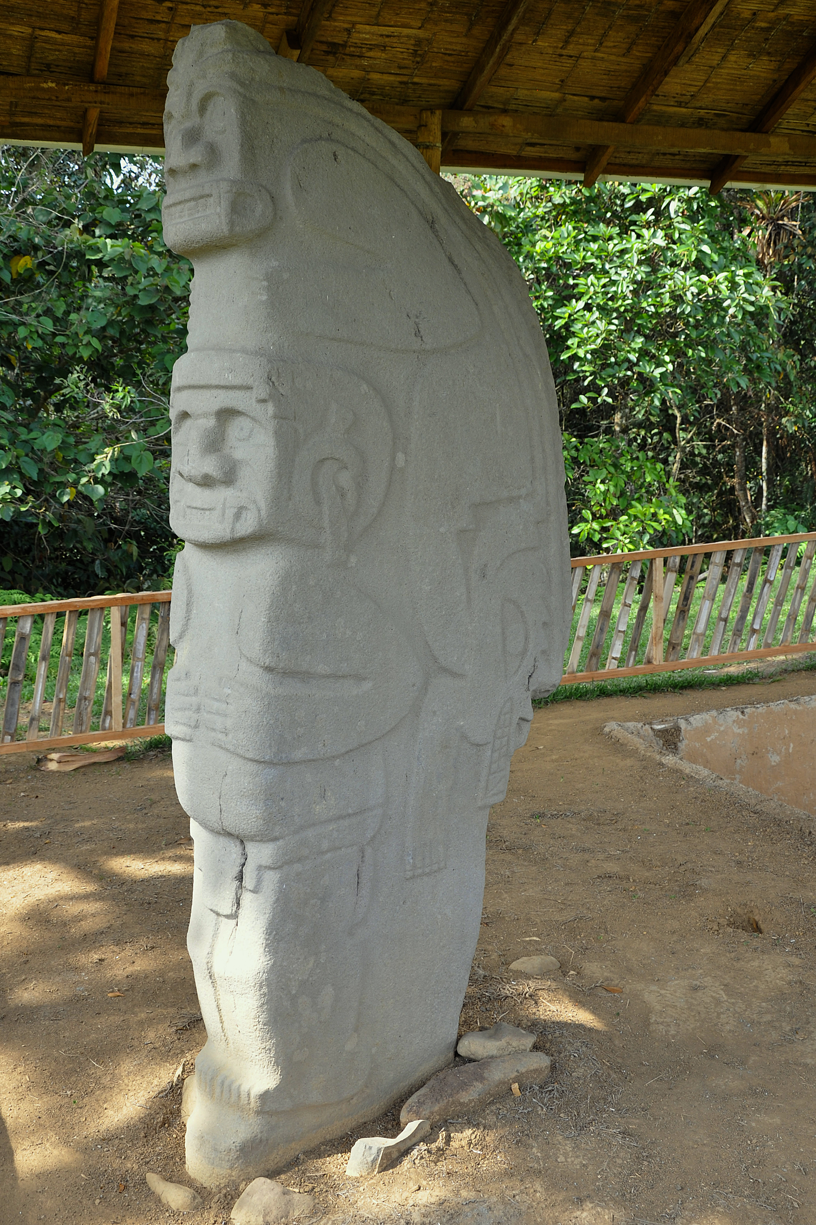 The San Agustín Archaeological Park, located on the Department of Huila, is the only place in the world highlighted by 500 imposing stone statues carved in accordance to the mythology of their Indian sculptors. Most of the statues were part of the funerary paraphernalia of the ancient inhabitants of the area and were related to funerary rites, the spiritual power of the dead, and the supernatural world. The monumental character of the stone statues and the tombs is a reflection of the complex thought system these unknown cultures carved and immortalized in stone. [1] This is an example of a Doble Yo figure, probably male. It is located on Alto de las Piedras. It is 224 cm. high 35 cm. wide and 96cm. thick.[2]